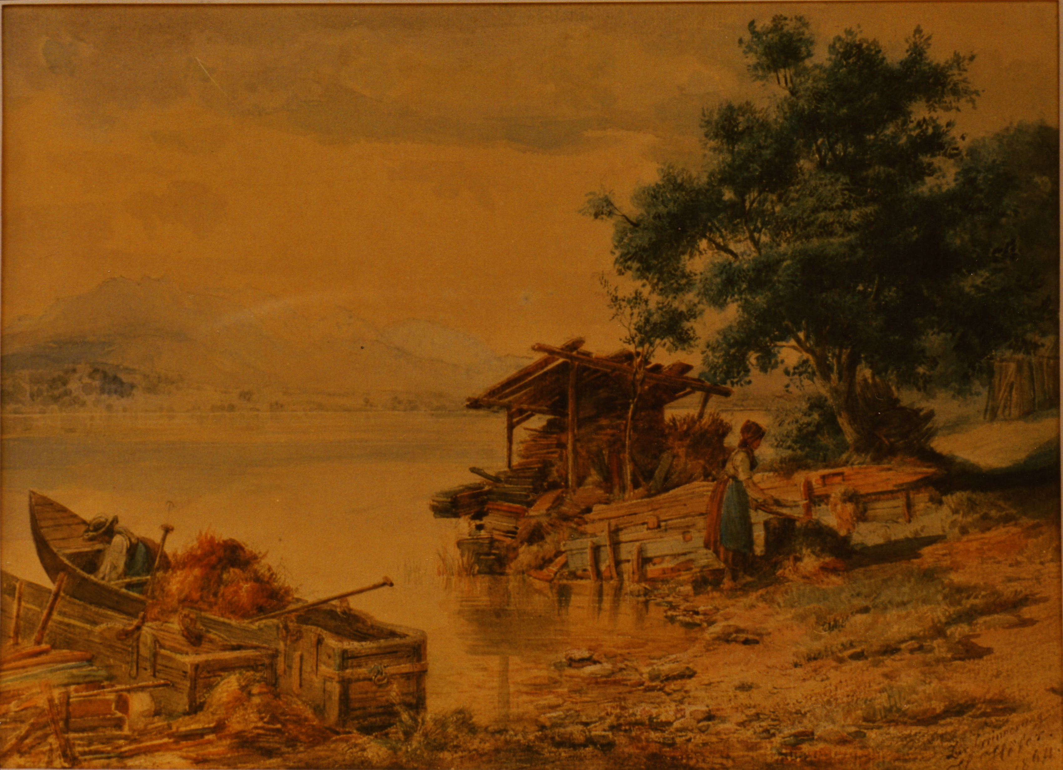 Heinrich Höfer (1825-1878), Scene on the Krautinsel in the Chiemsee, water colour, 27x20 cm, sign. bas droite "Zur Erinnerung Heinrich Höfer 1864"